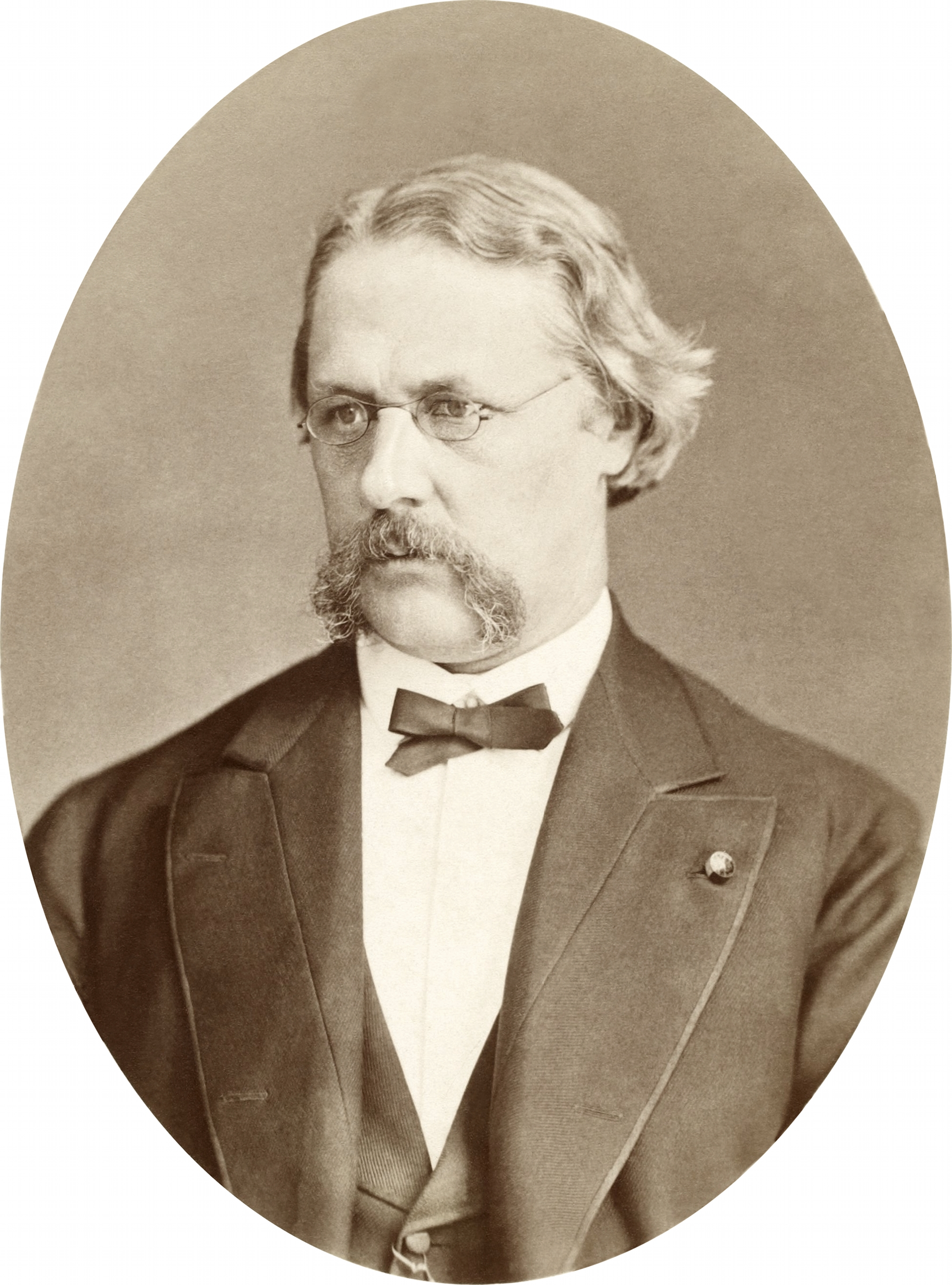 Otto Martin Torell (1828-1900), swedish naturalist & geologist.